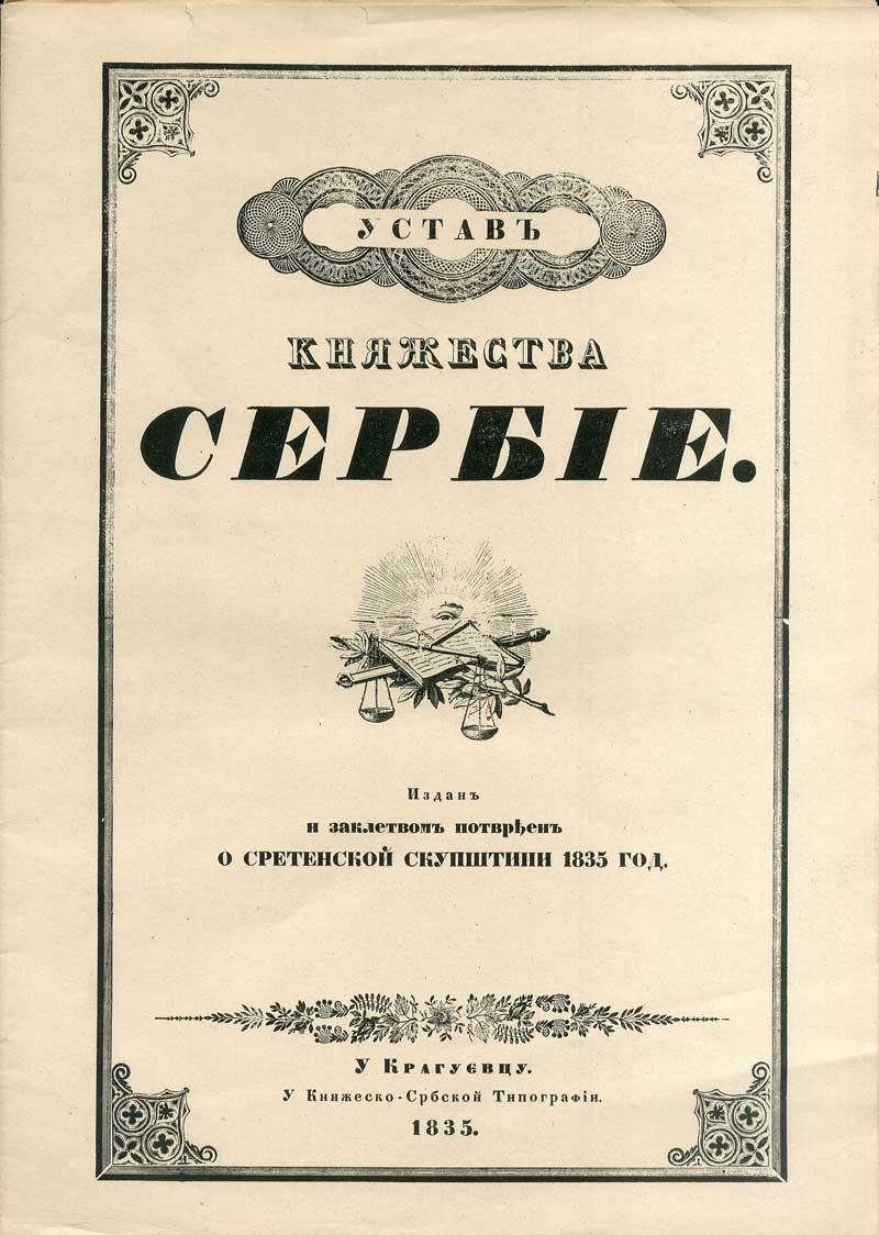 The Constitution consists of 14 chapters and 142 articles. One chapter is devoted to Human Rights. The importance of the Constitution is that it was adopted in the National Assembly, a limited power of the Prince and defined the civil rights. Adoption of this Constitution in Serbia is provoked a fierce, negative reactions the great powers. Condemned by all three great Empire interested for Serbia - Ottoman, Austria and Russia. Cyprien Robert it was described as a French nursery in feudal woods. The front page of the Serbian Constitution on 1835: Constitution Principality of Serbia Adopted and by oath confirmed in the National Assembly in 1835. In Kragujevac Typography of Principality Serbia 1835 Serbia has abolished any kind of slavery at the beginning of the Serbian Revolution 1804th. Chapter Eleven - Human Rights Article 118 As a slave to come to Serbia, from that moment becomes free, or him to brought some an in Serbia, or himself escape to Serbia.